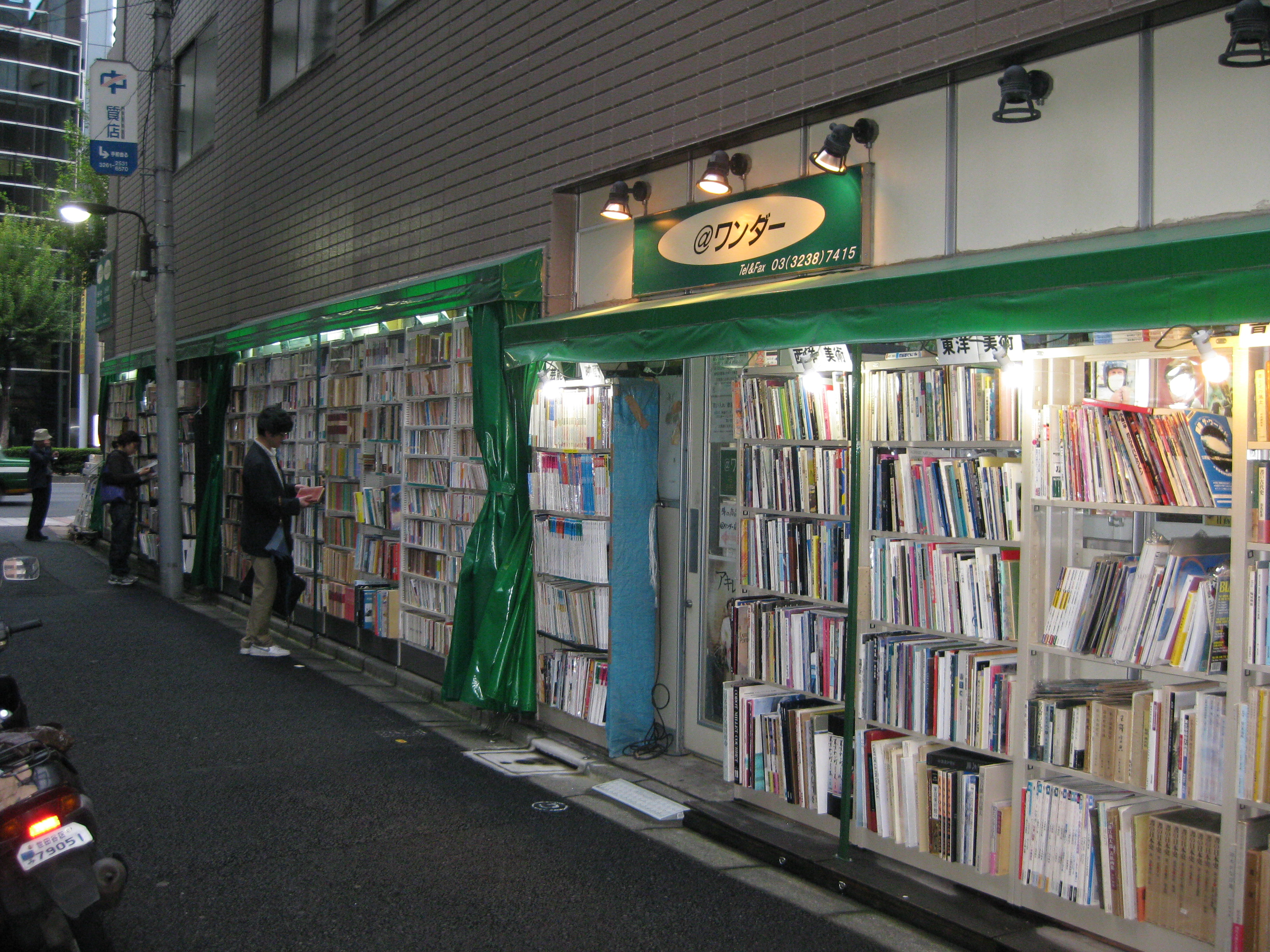 Second hand books being sold alongside a walkway between two buildings in the Kanda-Jimbocho area of Tokyo